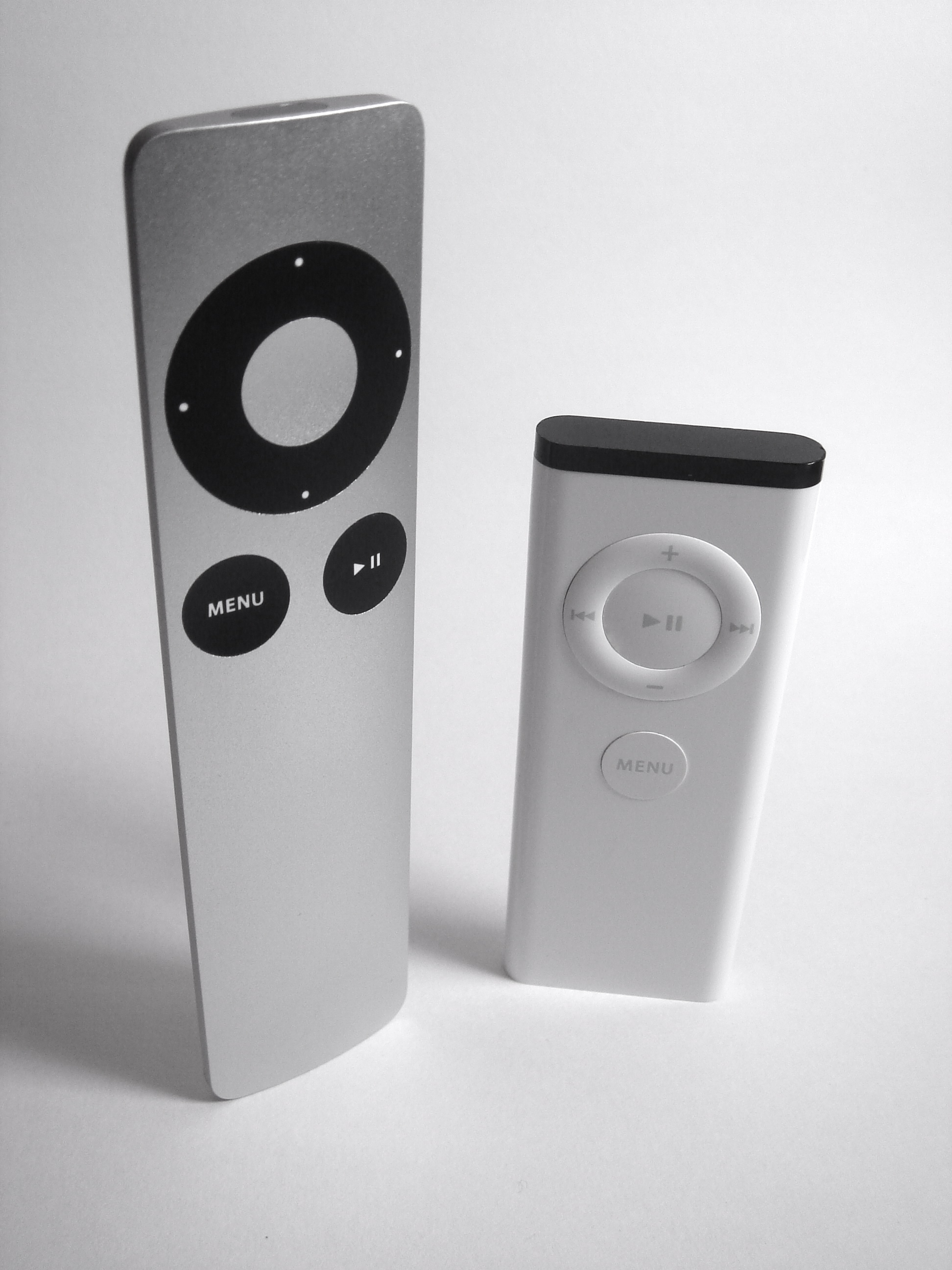 Compare Apple Remote 1. Generation with 2. Generation